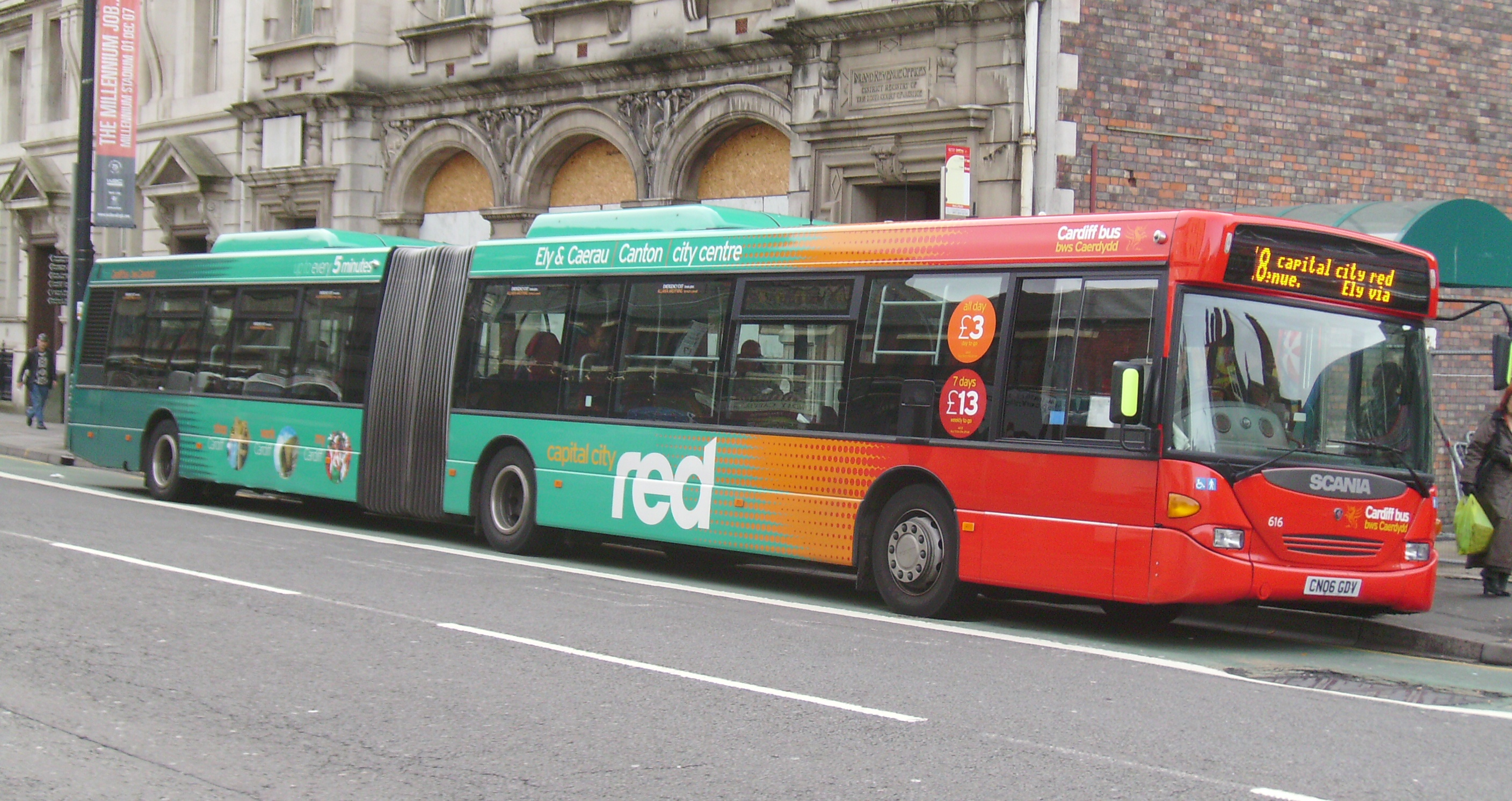 Cardiff Bus 616 (CN06 GDV), an articulated Scania N94UA OmniCity (or CN94UA?) in Cardiff, Wales, on Capital City Red route 18. Year built 2006.